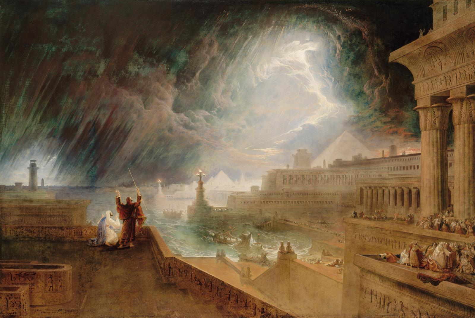 Old testament bible story, "plague of hail and fire", Exodus 9:13-35.